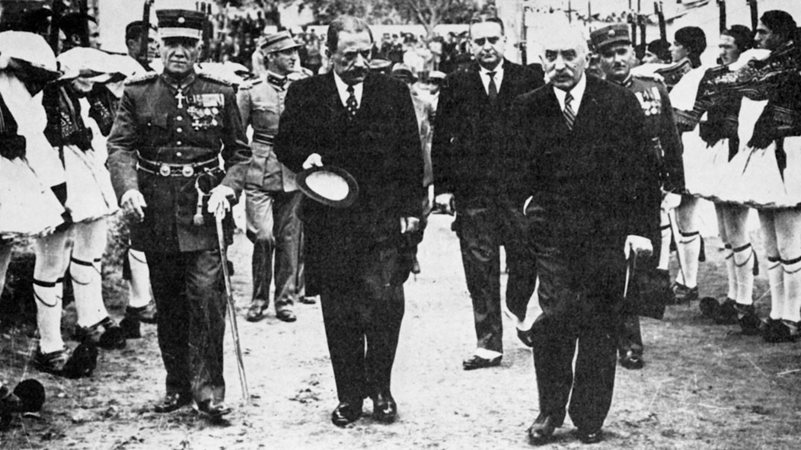 Prime Minister Panagis Tsaldaris (front right) with the Minister of Military Affairs Georgios Kondylis (front middle), the commander of the I Army Corps D. Petritis (front left) and Vice-Minister Konstantinos Tsaldaris (between P. Tsaldaris and Kondylis) in late 1934/early 1935